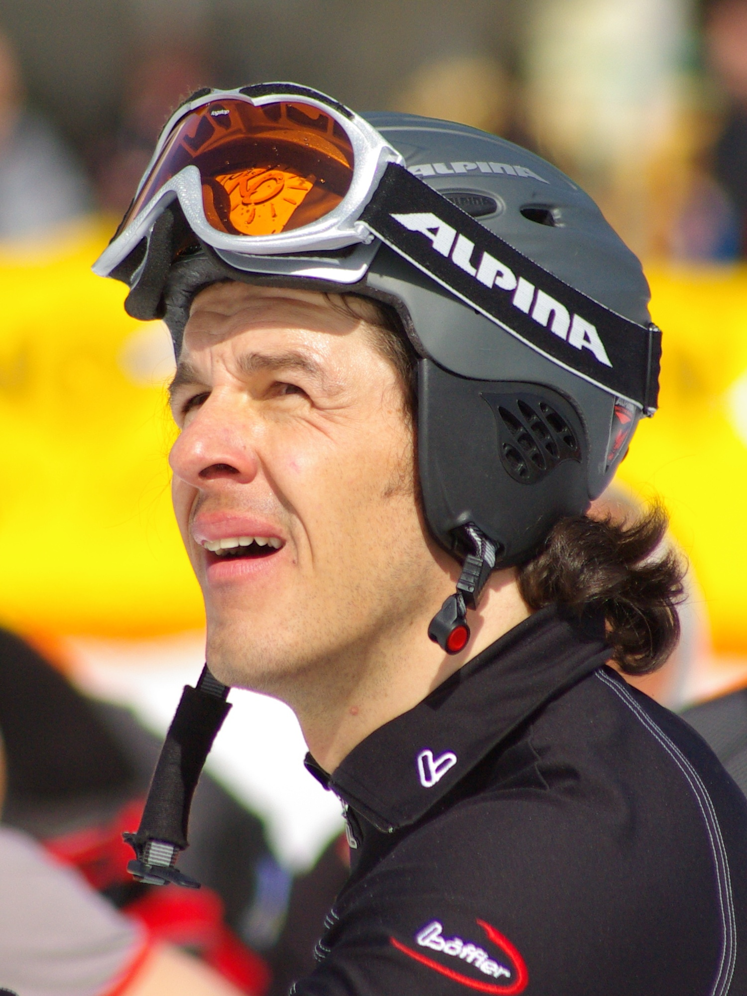 Bulgarian alpine skier Kilian Albrecht at the Austrian Championships 2008 in Haus im Ennstal.